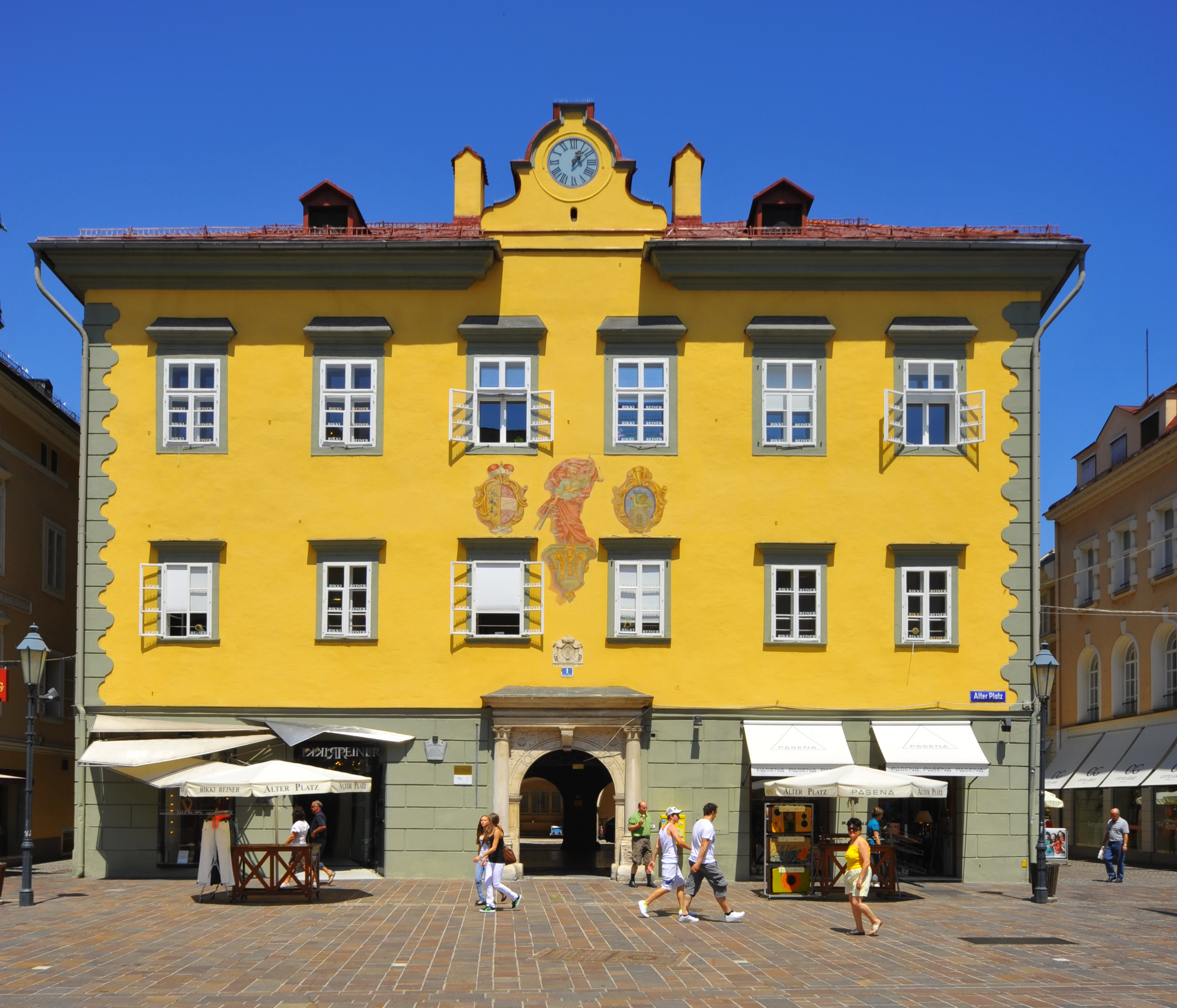 Palais Rosenberg, old guildhall on Alter Platz #1, inner City, Klagenfurt, Carinthia, Austria, EU